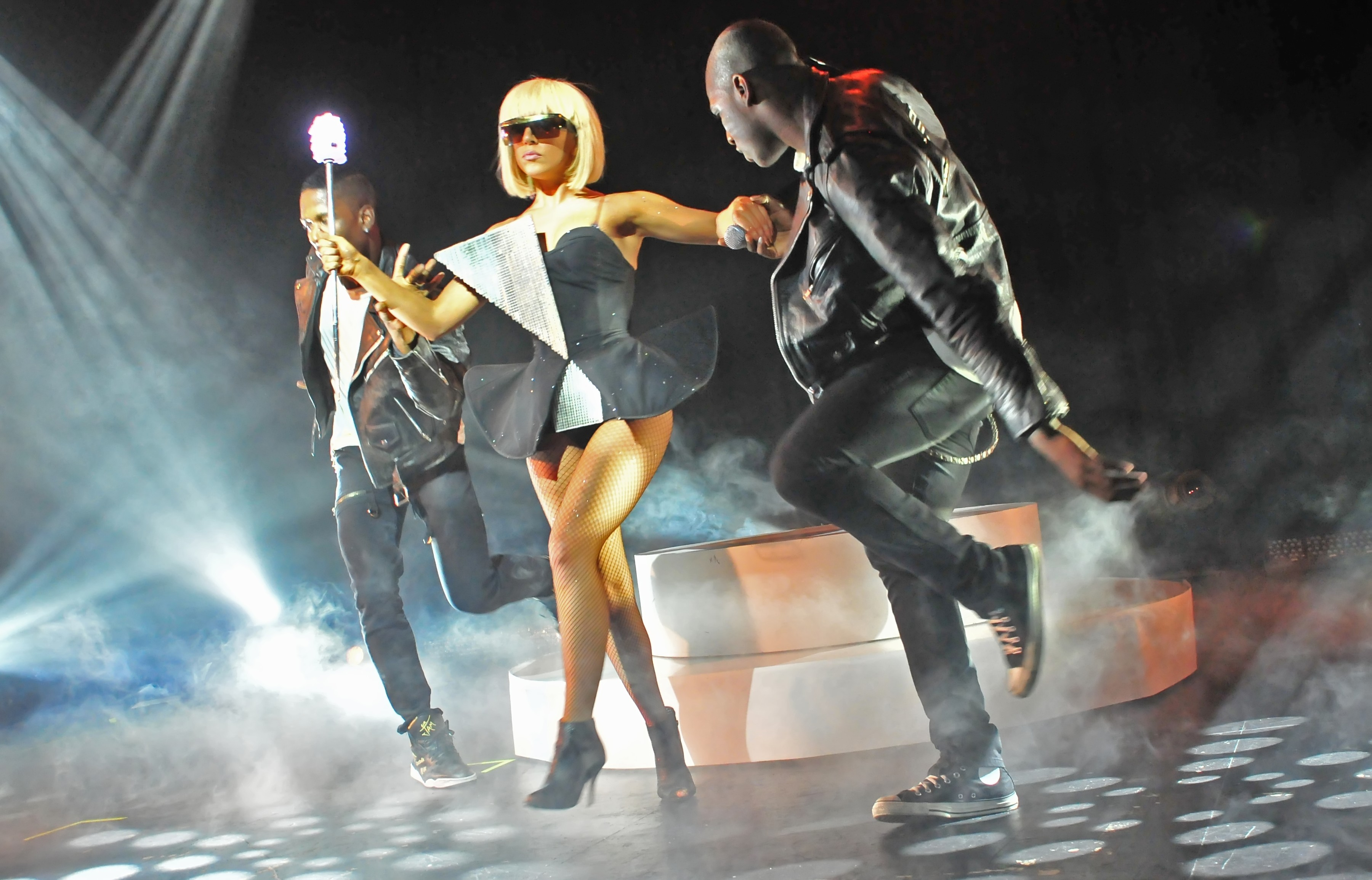 Lady Gaga performing "LoveGame" on The Fame Ball Tour